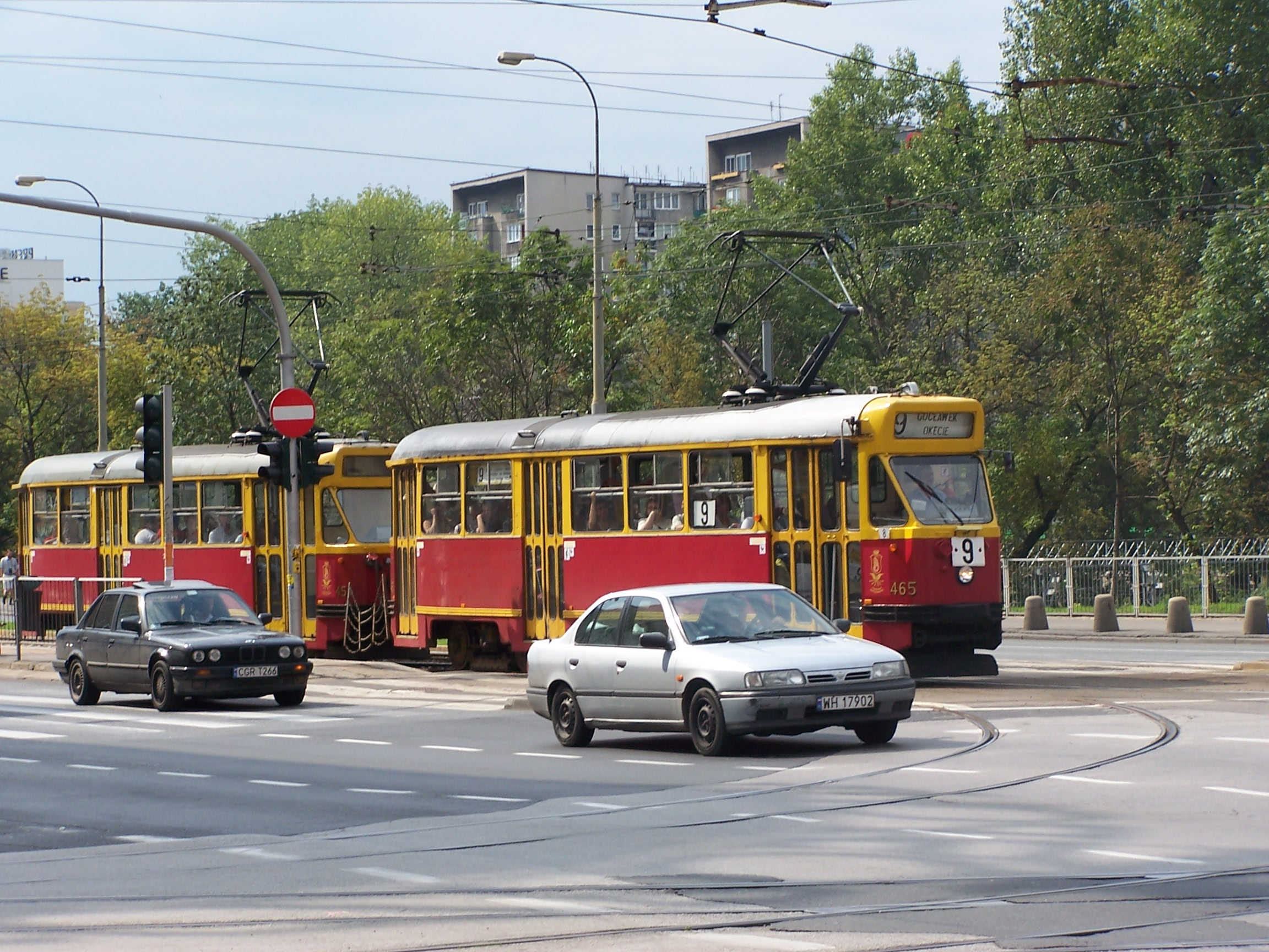 Photo by Piotrus.